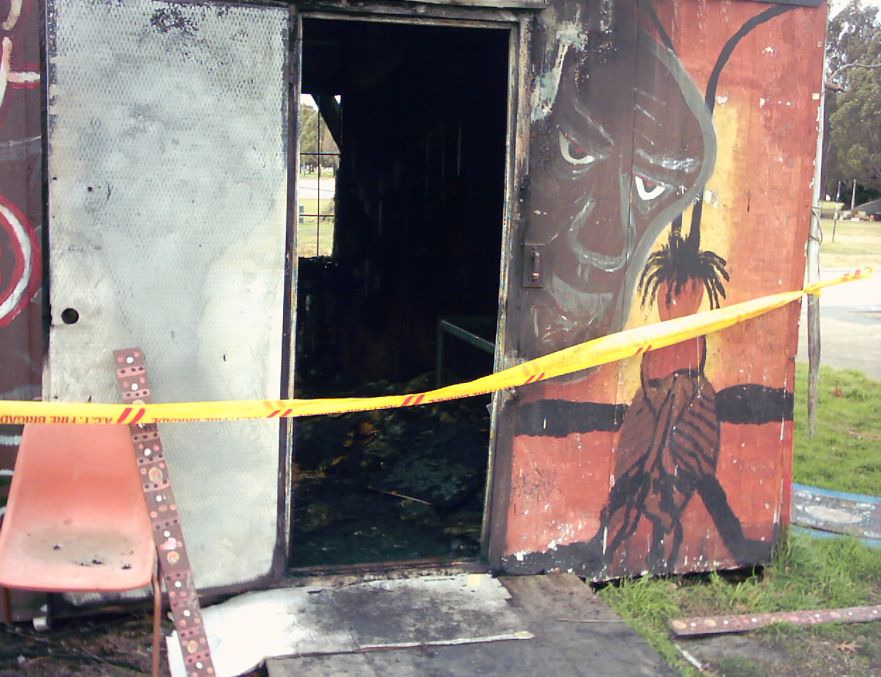 Front entrance to the burnt-out Aboriginal Tent Embassy. Photographed by User:Surgeonsmate